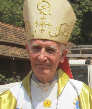 Belgian Catholic bishop, Emeritus Ordinary of Kaga-Bandoro in Africa, Albert Vanbuel SDB